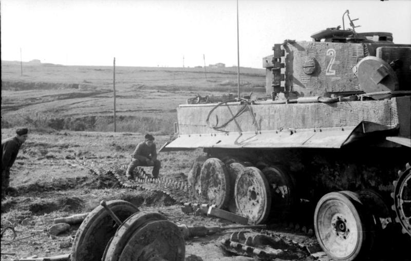 Information added by Wikimedia users.Schwere Panzer-Abteilung 508 (Size and style of number on turret, located in Italy)[1]